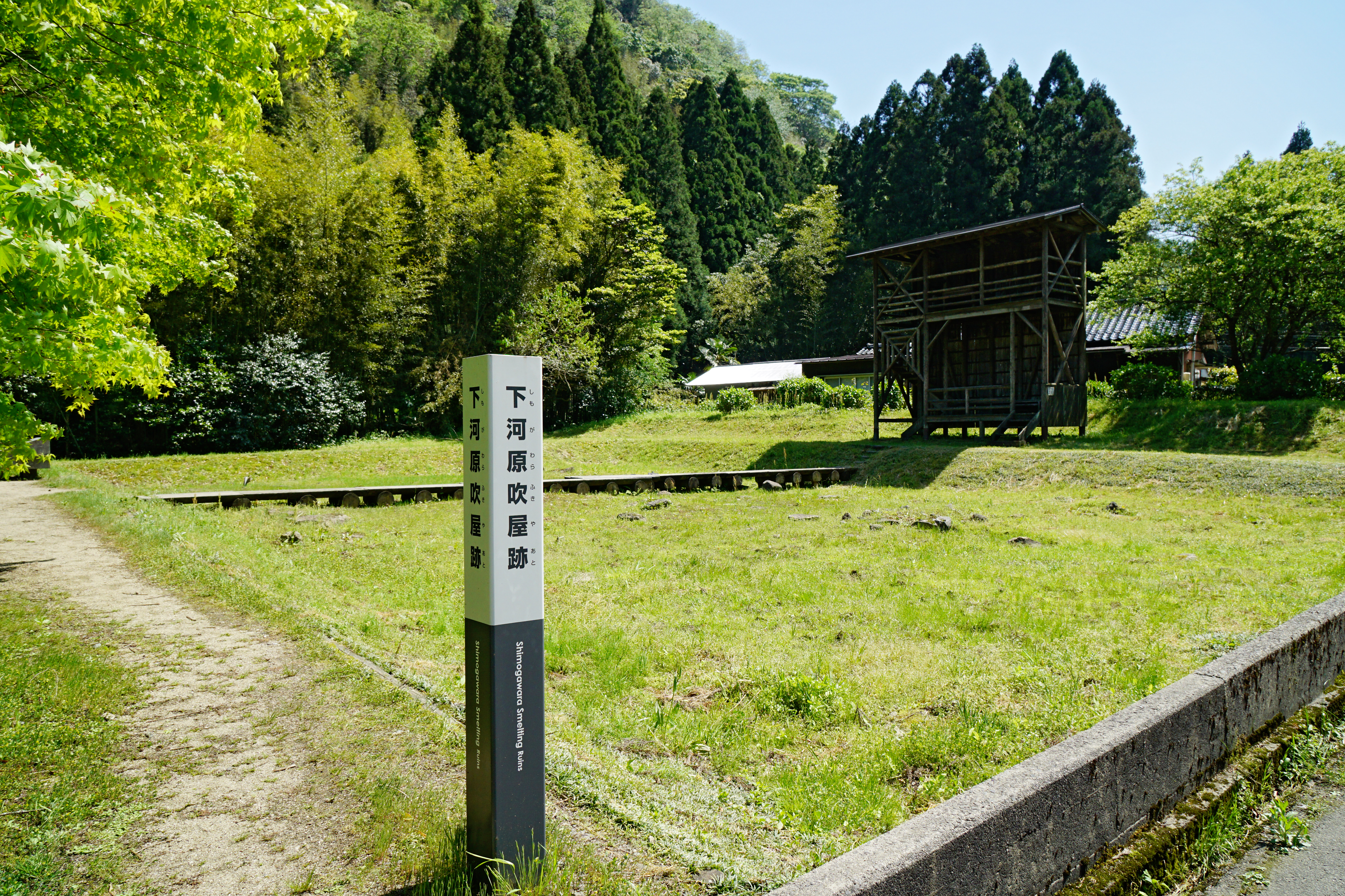 Shimogawara_Smelting_Ruins in Ōda, Shimane prefecture, Japan. It was registered as part of the UNESCO World Heritage Site "Iwami Ginzan Silver Mine and its Cultural Landscape".